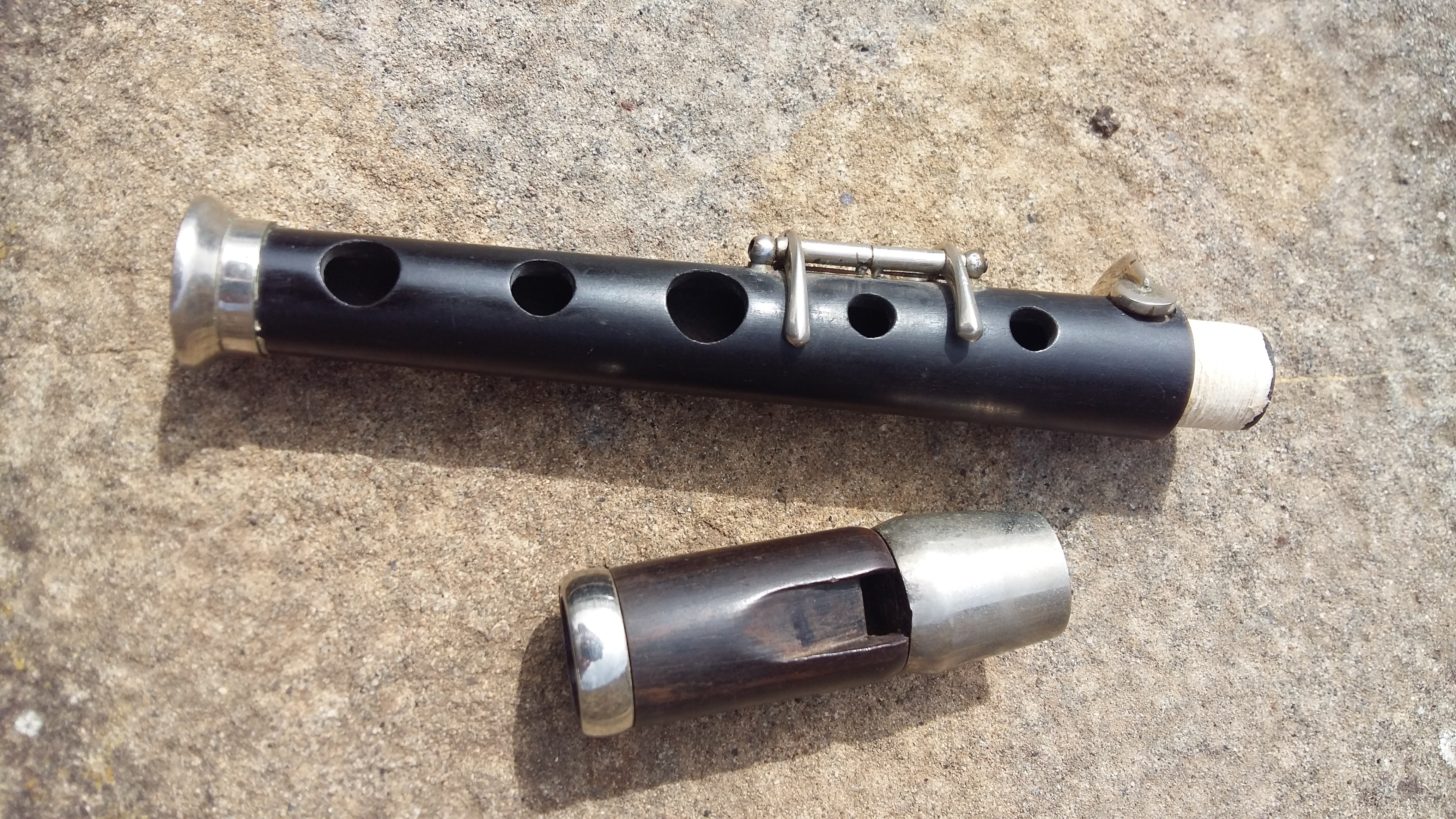 Flabiol of instrument maker P. Pardo, La Bisbal, Catalonia, 1967